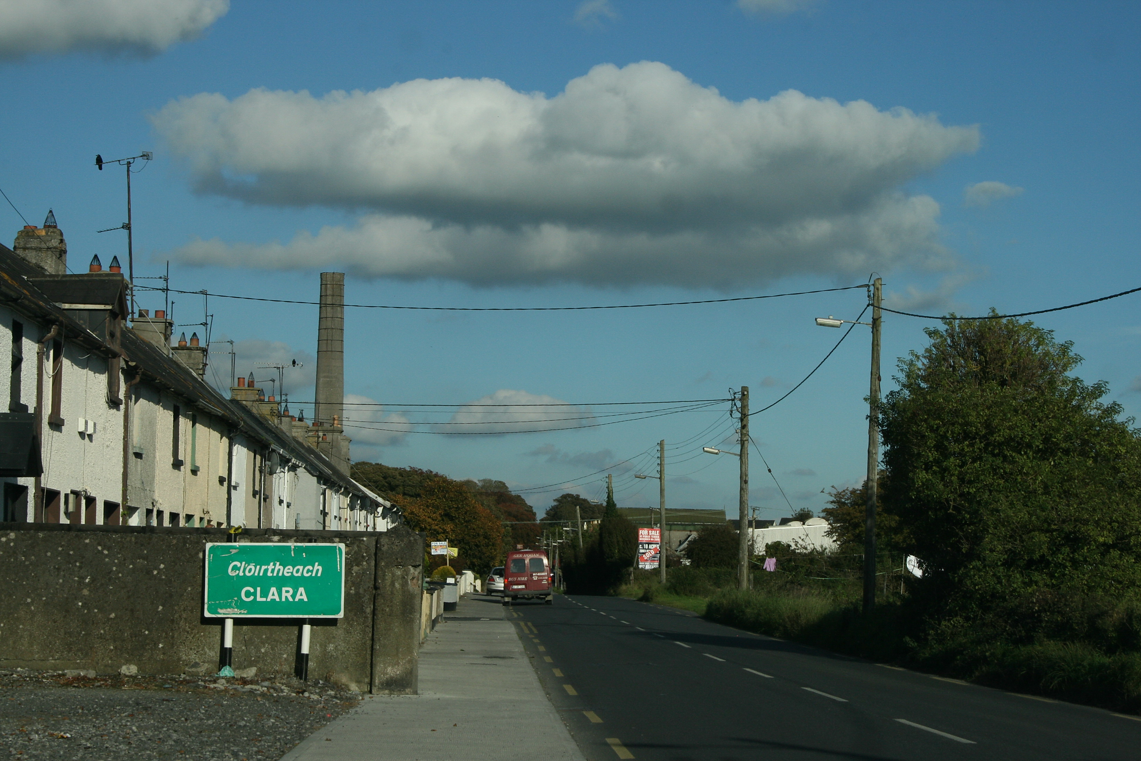 Clara, County Offaly, Ireland; the R437 SW approach.